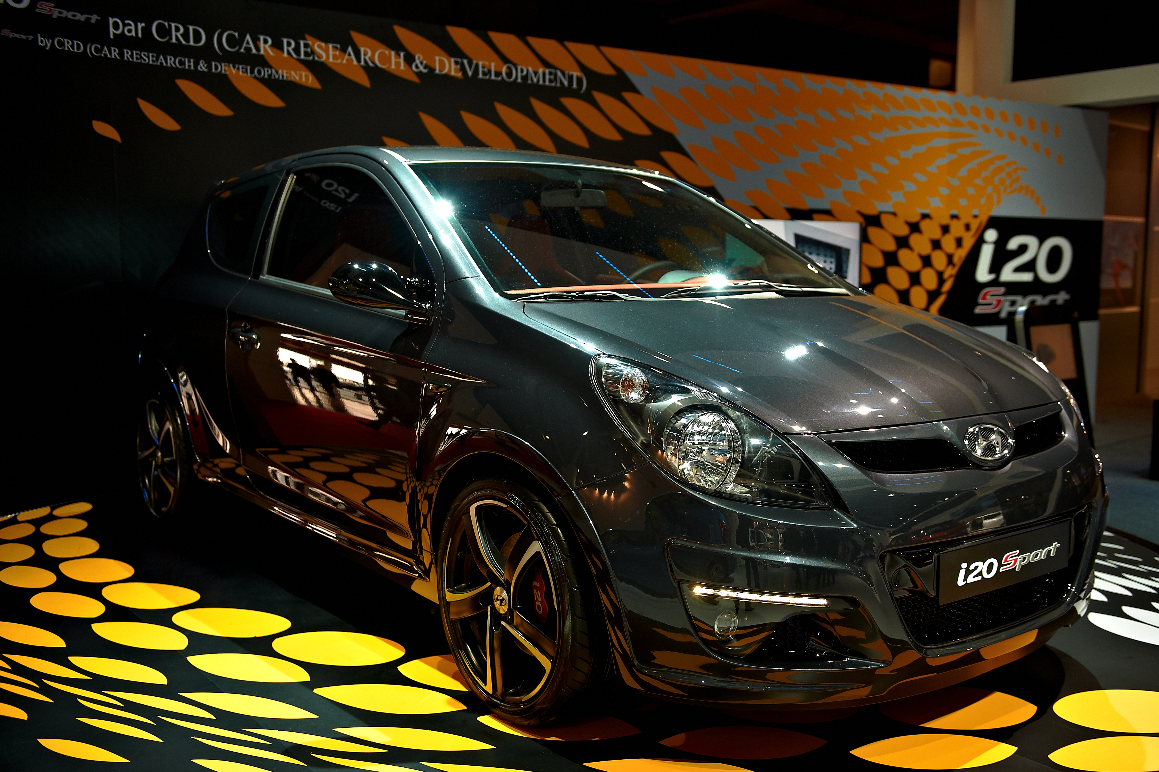 A Hyundai i20 Sport at the Paris Motor Show 2010.